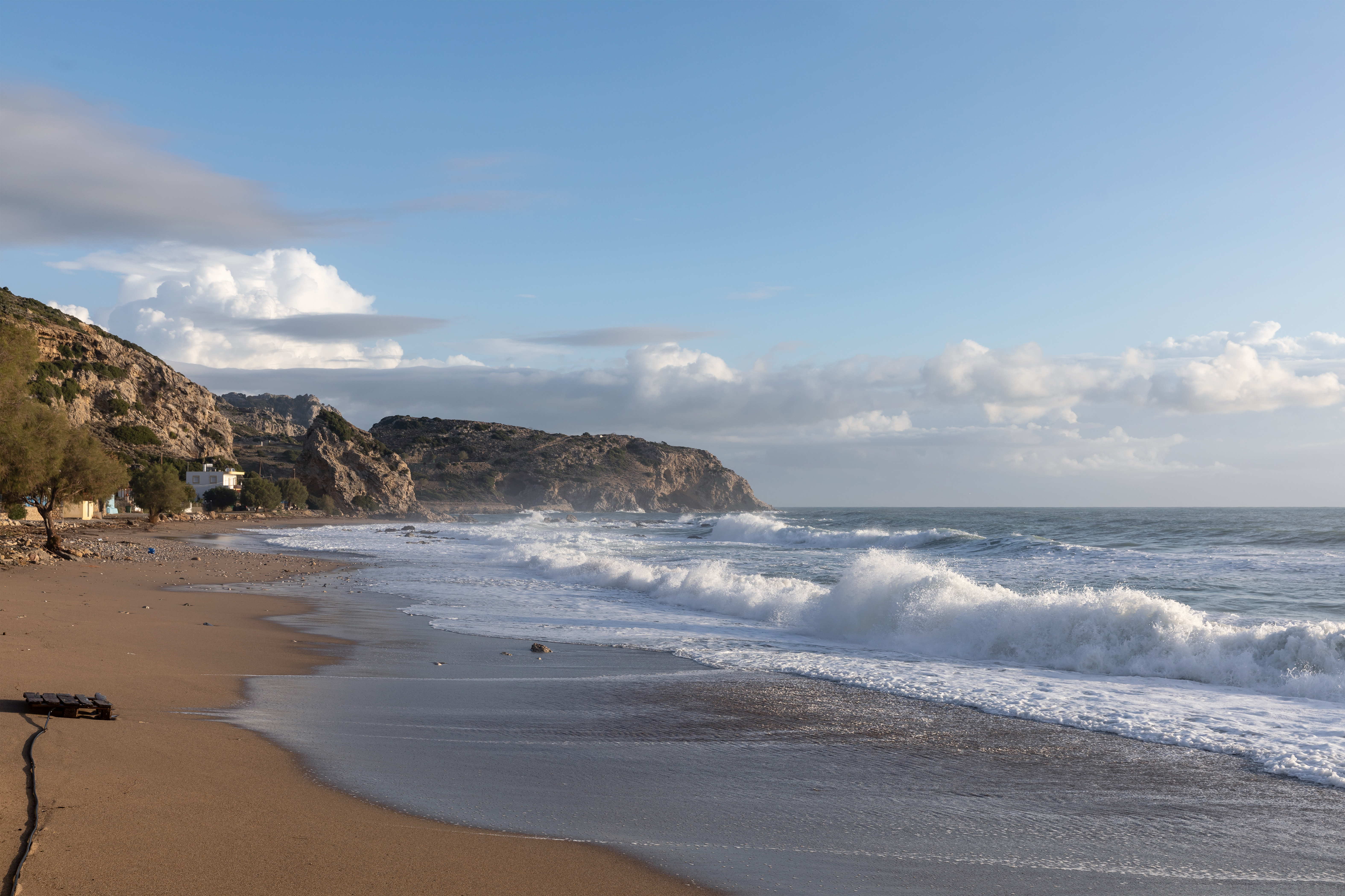 November morning in Stegna at the Levantine Sea (Archangelos, Rhodes, Greece).